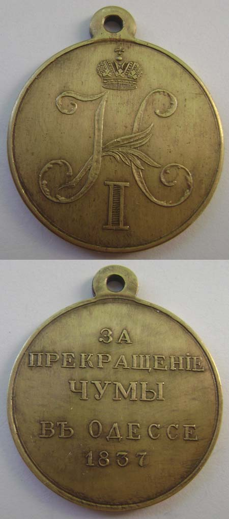 Medal of Russian Empire for Ceasing Plagu in Odessa in 1837, replica